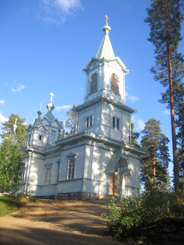 Viinijärvi orthodox church in Liperi, Finland.